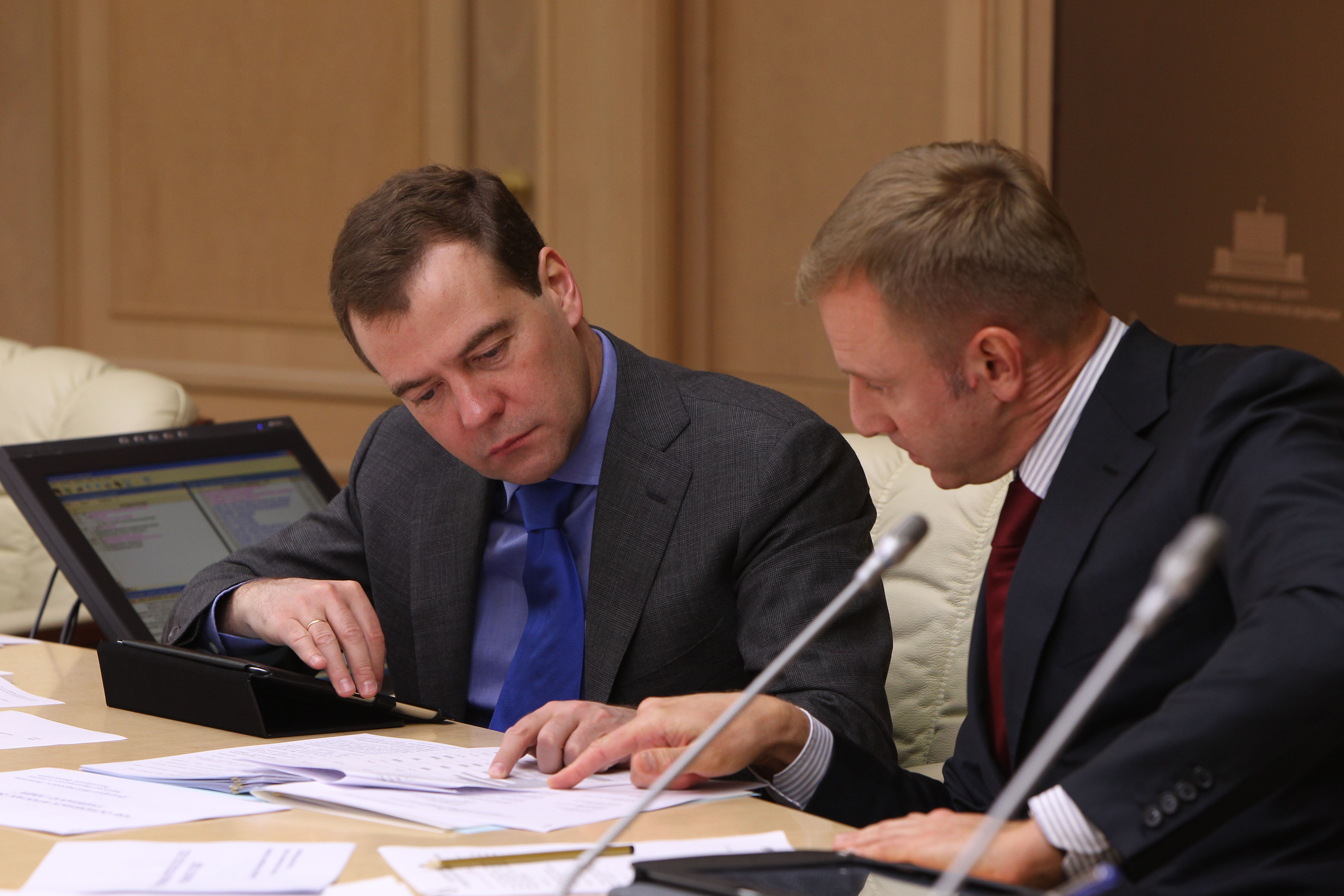 Prime Minister Dmitry Medvedev and Minister of Education and Science Dmitry Livanov